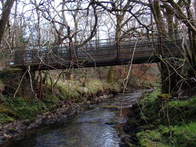 Pontdroed Afon Marlais Footbridge